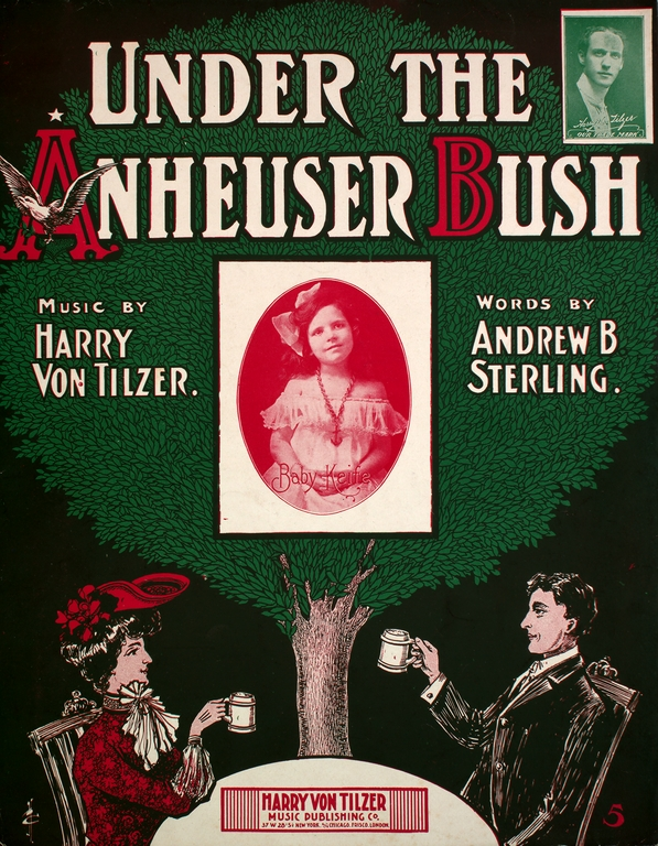 Cover of sheet music for "Under the Anheuser Bush", published 1903 by the Harry Von Tilzer Music Publishing Co.